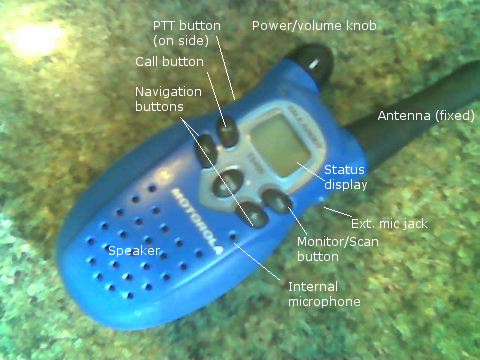 This image is a picture of a Motorola Talkabout T5400 FRS two-way radio, manufacture date 8/2002. The picture is annotated to show all the basic parts on a typical personal walkie-talkie device; while this model is no longer made, most Motorola Talkabout radios have a similar control layout, and accept the same accessories. The picture was taken on a Nokia cellular phone and edited using AppleWorks 6.